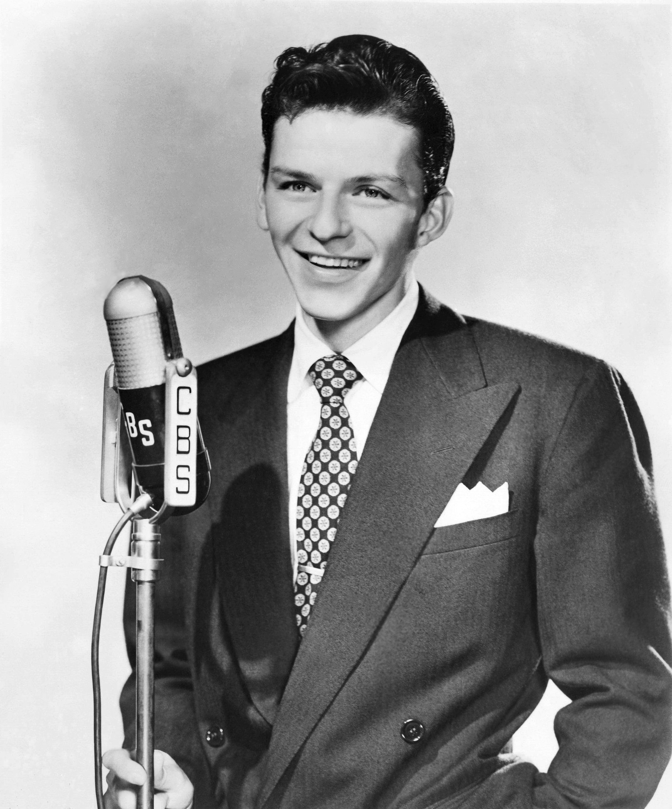 Publicity photo of Frank Sinatra in 1942 with a CBS microphone, issued to promote an early iteration of The Frank Sinatra Show on CBS Radio.